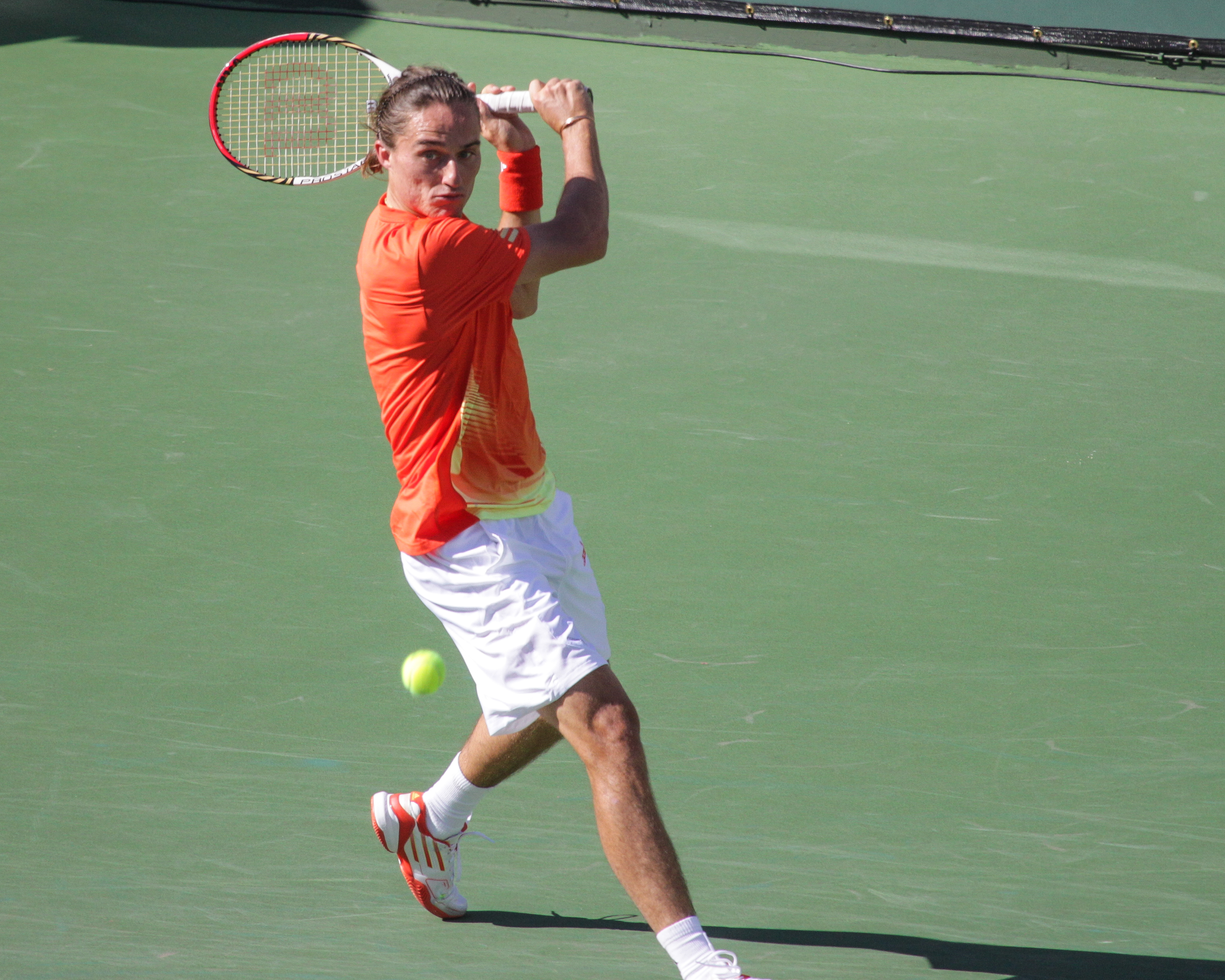 Alexandr Dolgopolov @ BNP Paribas 2012 Open